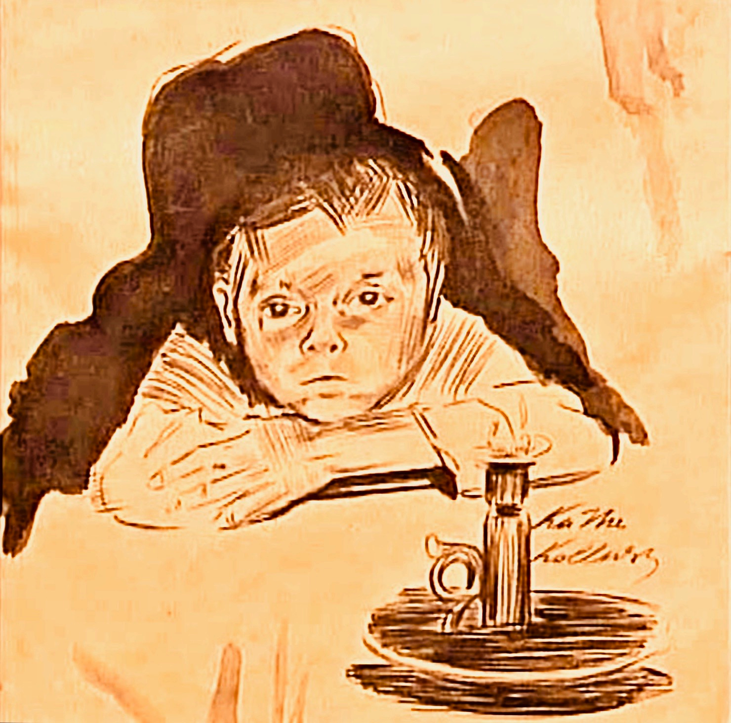 Käthe Kollwitz (1867–1945): cropped Portrait of her eldest son Hans Kollwitz (1892–1971) at the age of 3 years. According to the Käthe Kollwitz-Museum in Cologne, this file is a "bad copy" (forgery). The original can be seen on the website of the museum. The origin of the copy is not known (OTRS)